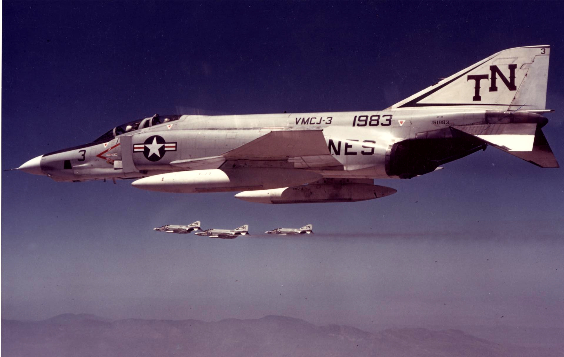 Four U.S. Marine Corps McDonnell RF-4B-23-MC Phantom II (BuNo 151893 in the foreground) from Marine Composite Reconnaissance Squadron VMCJ-3 in flight.